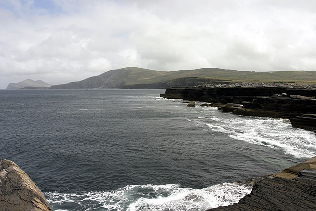 Valentia Island, County Kerry, Ireland